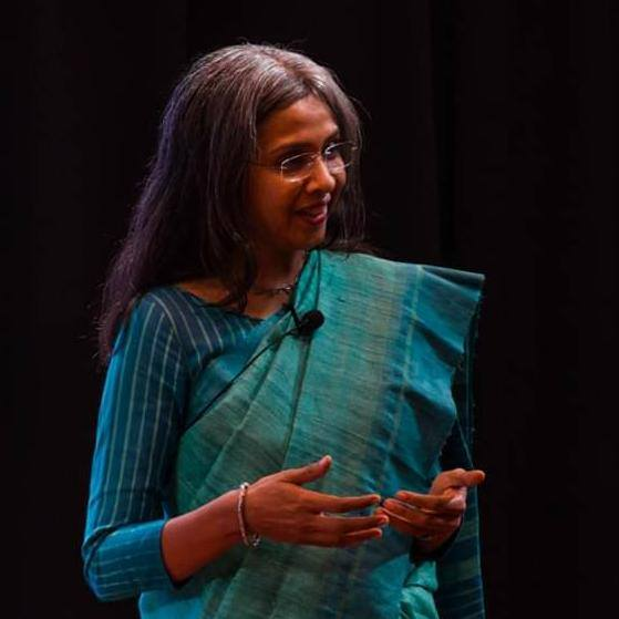 Prabhu's Ted Talk on 24 February 2019 at TedX Manipal, an independently organized event